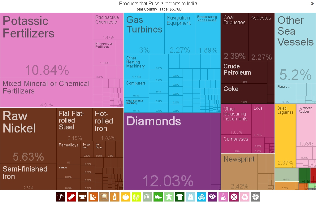 A proportional representation of Russian exports to India, 2012.